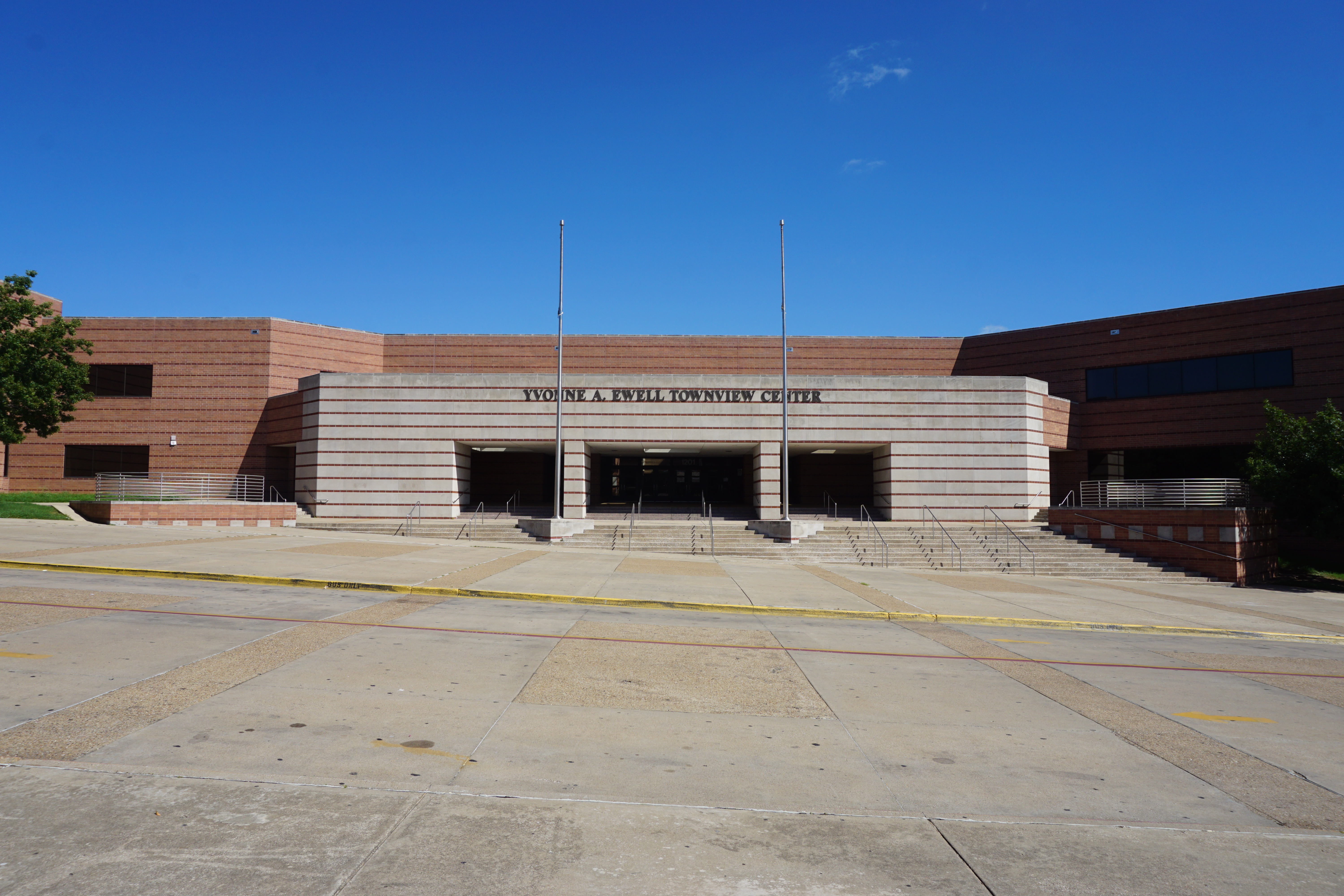 The Yvonne A. Ewell Townview Center in the Oak Cliff neighborhood in Dallas, Texas (United States).